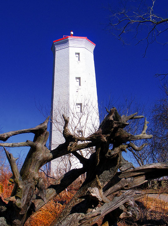 The Light House @ Presqu'ile, Ontario, Canada